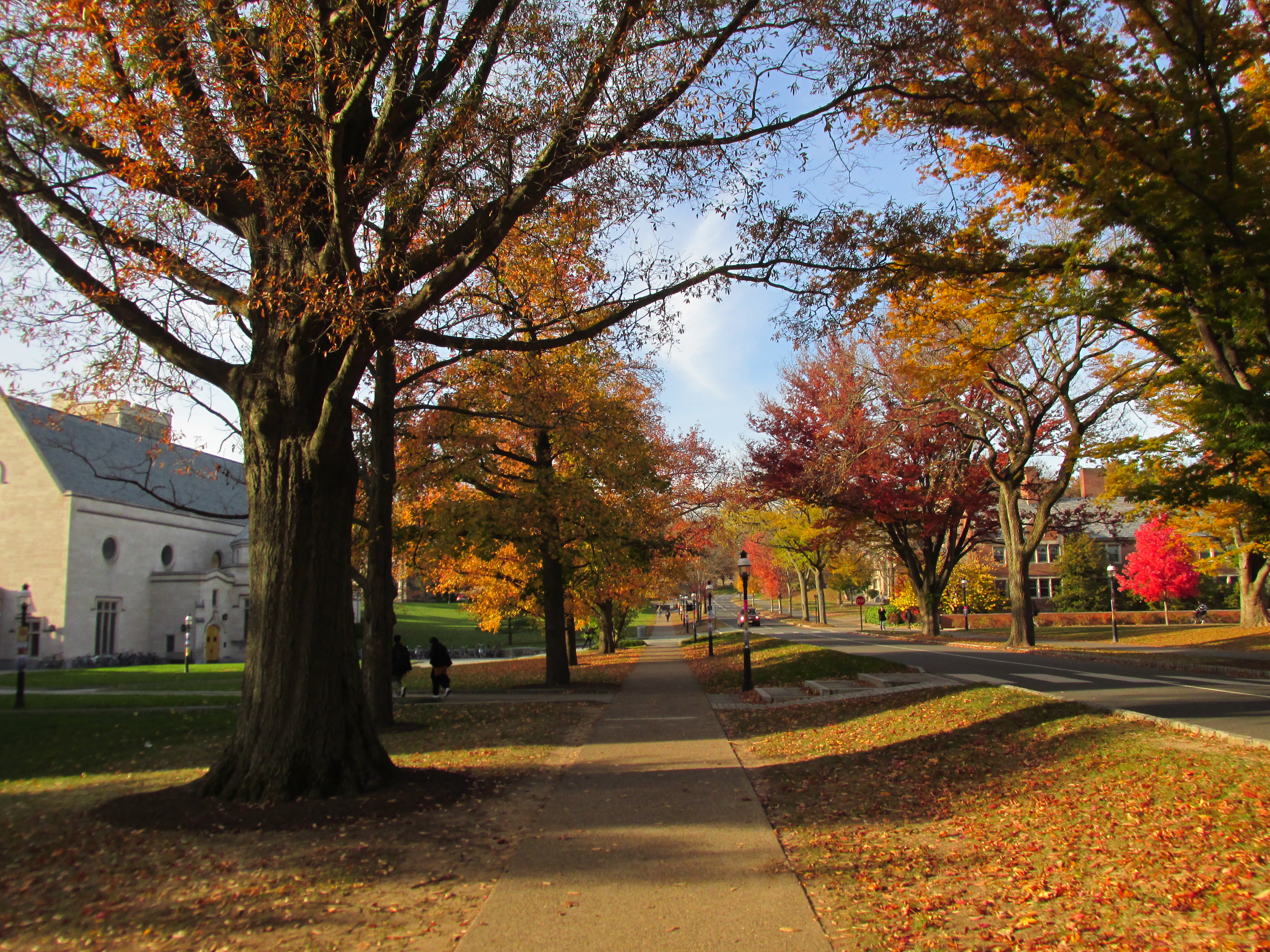 Elm Drive, Princeton University, Princeton New Jersey